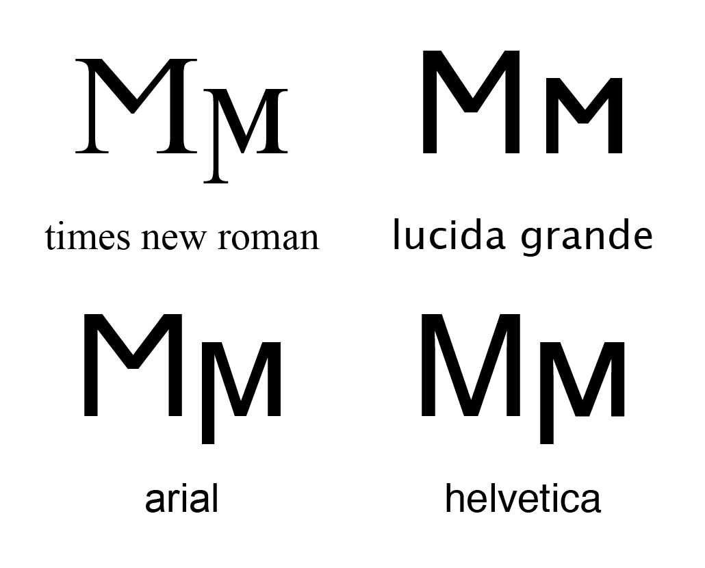 The Greek letter san in various fonts.